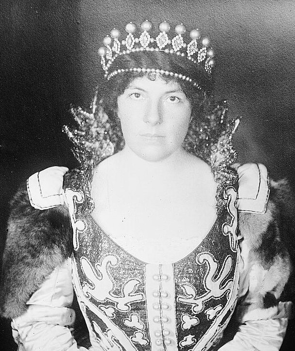 Bain News Service,, publisher. Louise Homer as Marina in "Boris Godounow" [between 1910 and 1915] 1 negative : glass ; 5 x 7 in. or smaller. Notes: Title from unverified data provided by the Bain News Service on the negatives or caption cards. Forms part of: George Grantham Bain Collection (Library of Congress). Format: Glass negatives. Repository: Library of Congress, Prints and Photographs Division, Washington, D.C. 20540 USA, General information about the Bain Collection is available at Persistent URL: Call Number: LC-B2- 2547-5